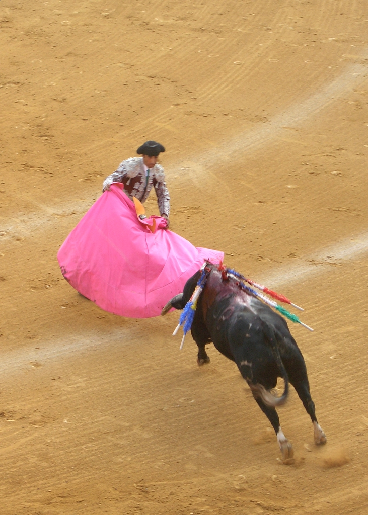 Bullfight in Malaga fair, Spain.